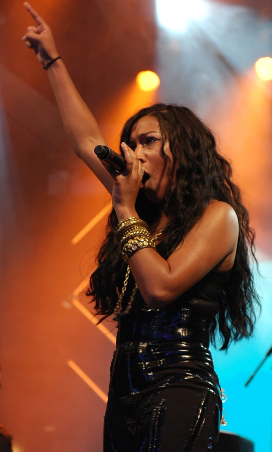 Canadian recording artist Melanie Fiona performing the Luminato festival in Ontario, Canada, on June 11, 2010.